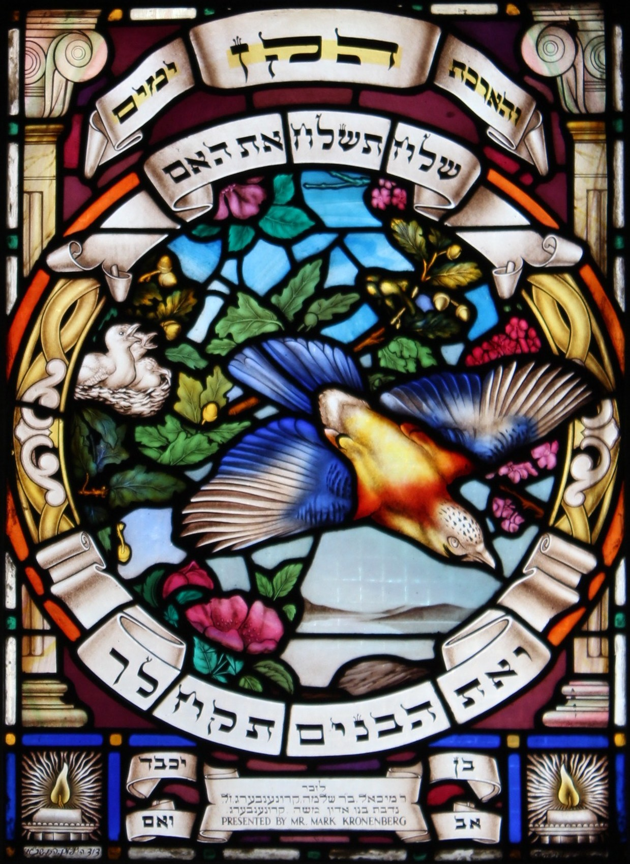 Renanim Synagogue, Heichal Shlomo, Jerusalem, Israel This image was taken as part of the Elef Millim project trip to Heichal Shlomo and The National Institutions House, in Jerusalem which was held on Friday, 15th November 2013. To view all images uploaded as part of the Elef Millim Project